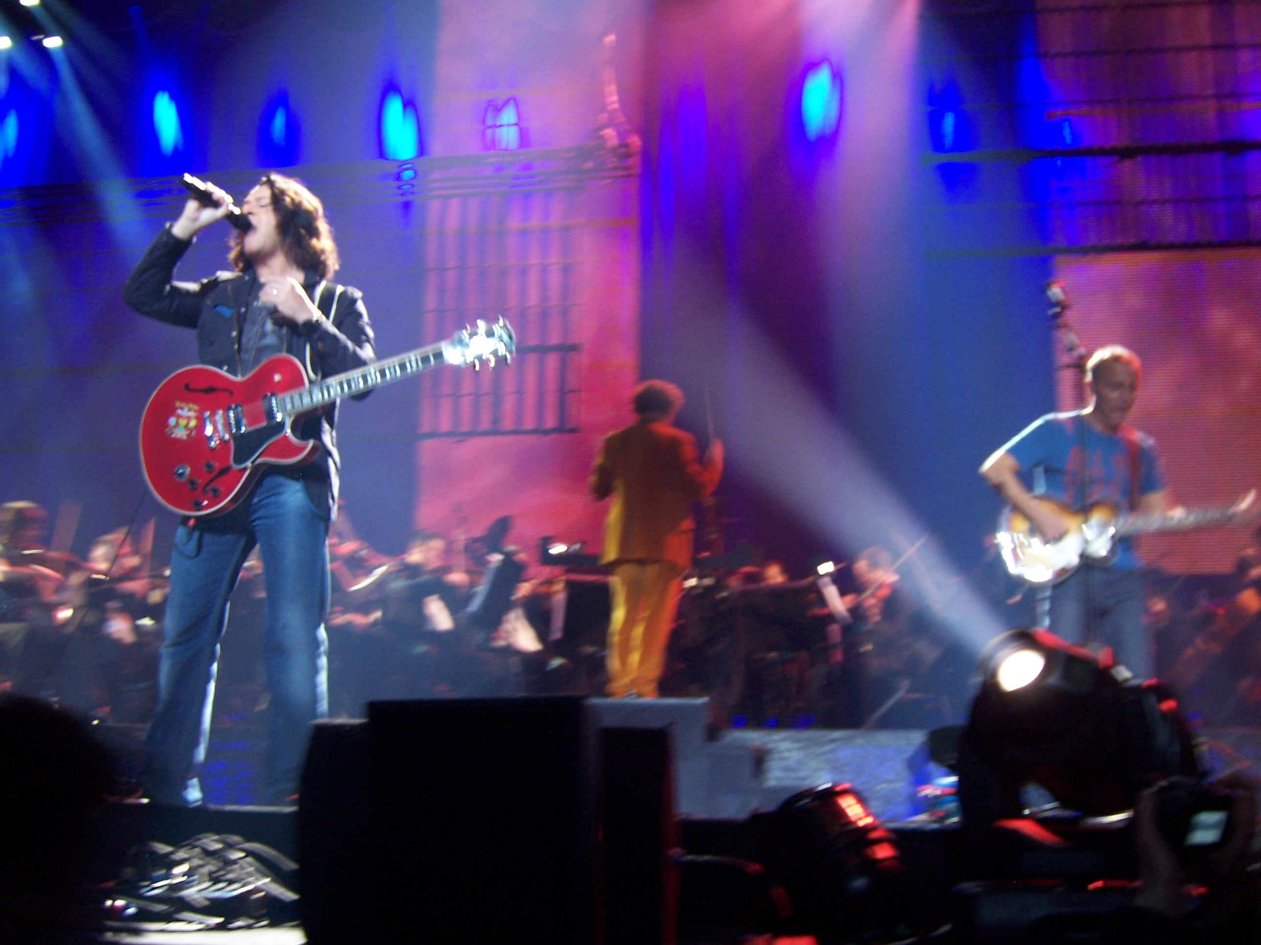 Tears for Fears: Roland Orzabal (left) and Curt Smith (right) performing at the „Nokia Night of the Proms“ in Hanover, Germany, 2008